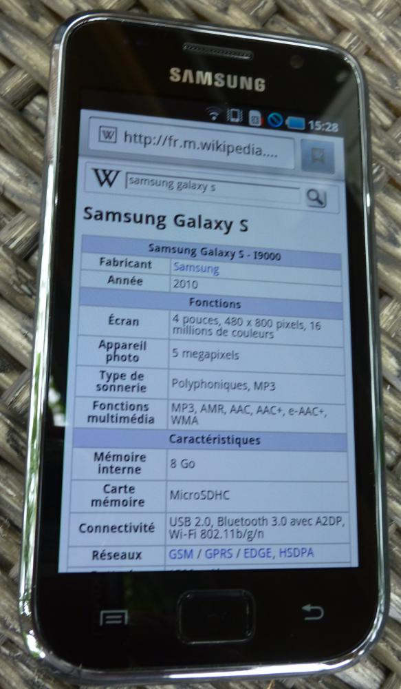 Samsung android smartphone i9000 Galaxy S